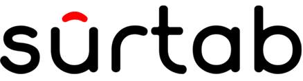 This logo of the company, Sûrtab.